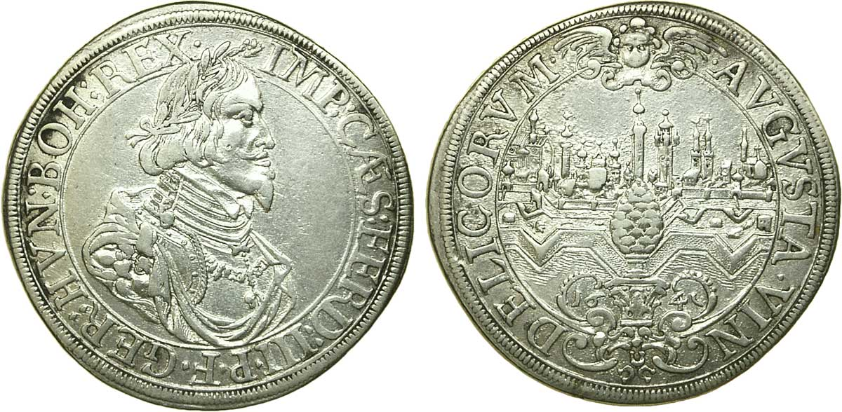 Thaler d'Augsbourg à l'effigie de Ferdinannd III, 1641. Description revers : Vue de la ville d’Augsbourg sous un ange ; une pomme de pin sur une colonne accosté du millésime 1641 contenu dans un fleuron . Ferdinand III naquit à Graz le 13 juillet 1608. Il est le fils et successeur de l'empereur Ferdinand II et fut couronné roi de Bohême en 1625 et de Hongrie en 1627. Il devint empereur en 1637, après la mort de son père et continua la guerre de Trente ans qui l'opposa aux Français et aux Suédois. En 1648, il fut contraint de signer le traité de Westphalie qui eut pour principale conséquence la division religieuse de l'Allemagne et donc l'affaiblissement politique de l'empereur. De son vivant, il fit élire sont fils aîné, Ferdinand IV, comme roi des Romains. Ferdinand mourut en 1654 et ne fut jamais empereur. À Vienne, le 2 avril 1657, son père, Ferdinand III, le suivit dans la tombe.